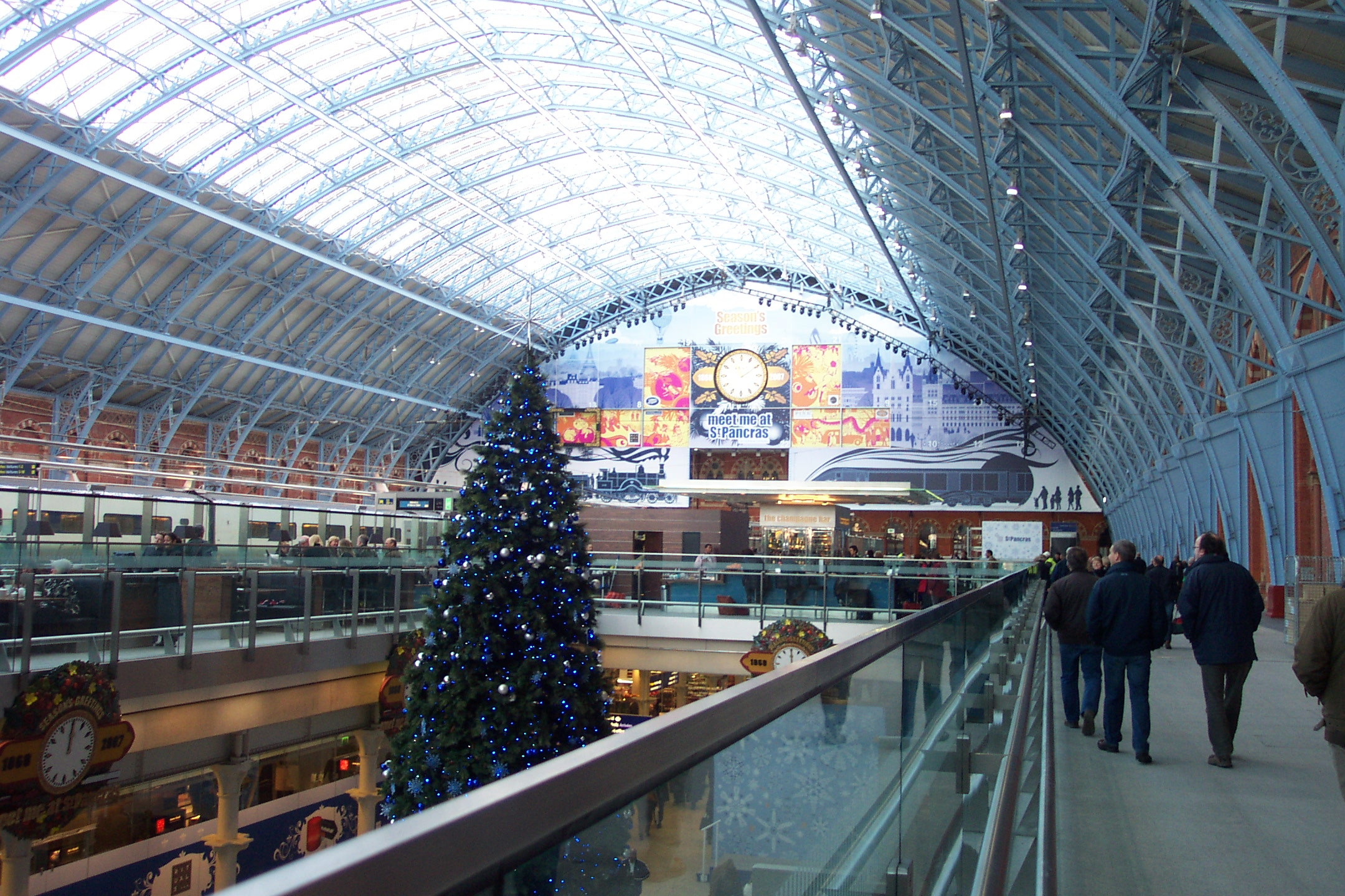 The upper level of The Arcade at St Pancras railway station, looking south under Barlow's magnificent roof. A Eurostar train can just be in the platforms to the right. The Christmas Tree and decorations across the head of the station show this shot was taken just after the station re-opened and just before Christmas 2007. For more information see the Wikipedia article St Pancras railway station.